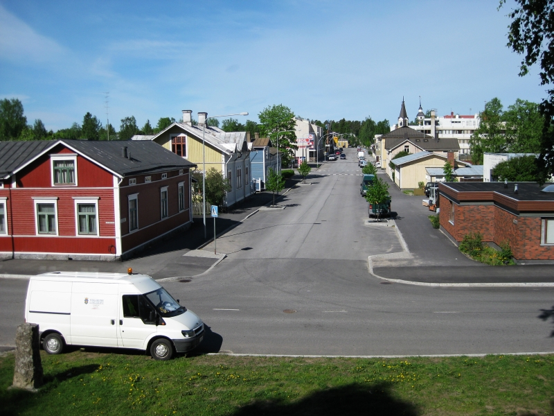 Sollefteågatan street in Nykarleby, Western Finland, June 1, 2009.